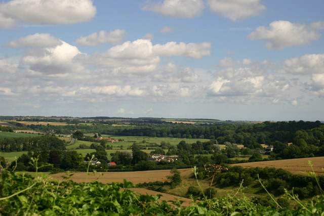 Norton Lane View of France Farm towards Blandford bypass from Norton Lane, Durweston